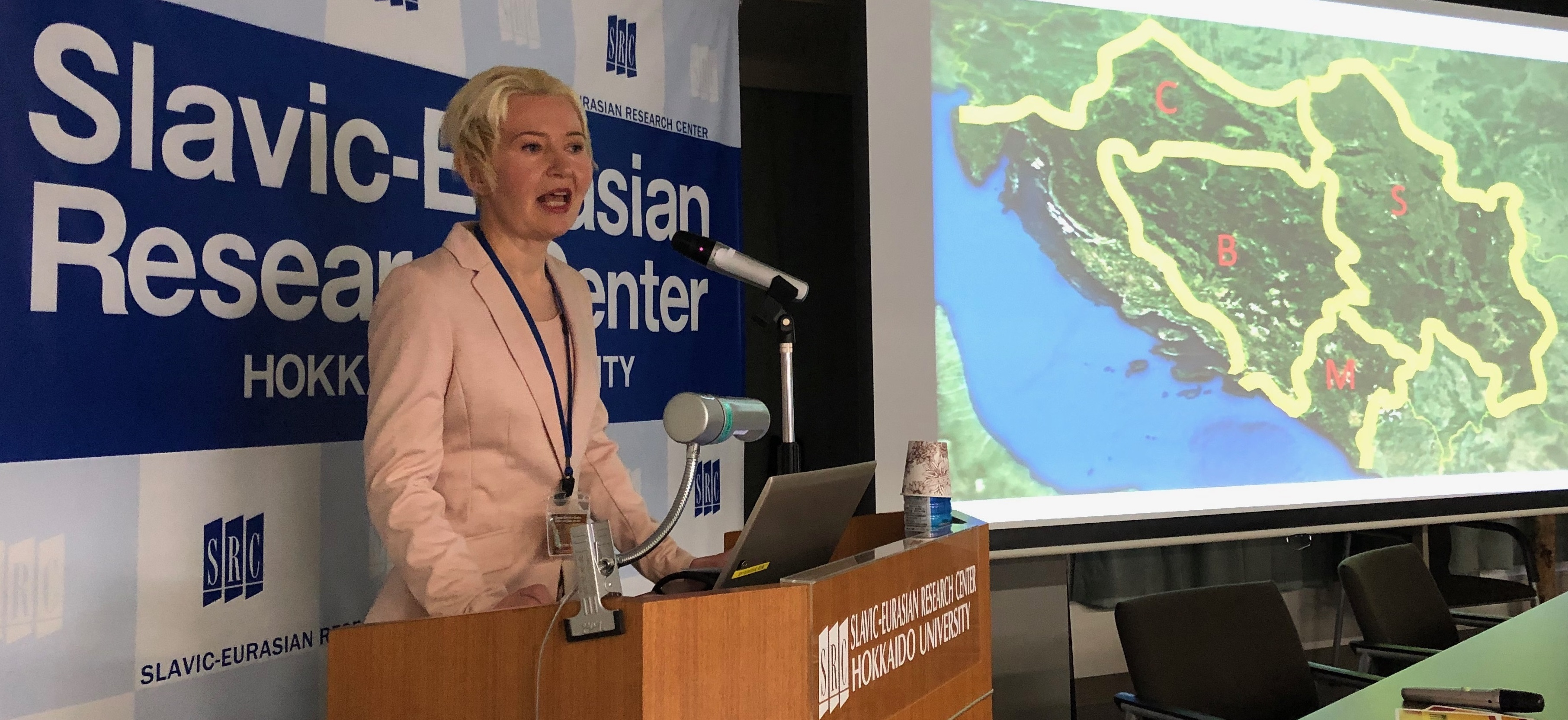 Snježana Kordić as keynote speaker about "Ideology against language" at the Slavic-Eurasian Research Center 2018 International Symposium (Hokkaido University)